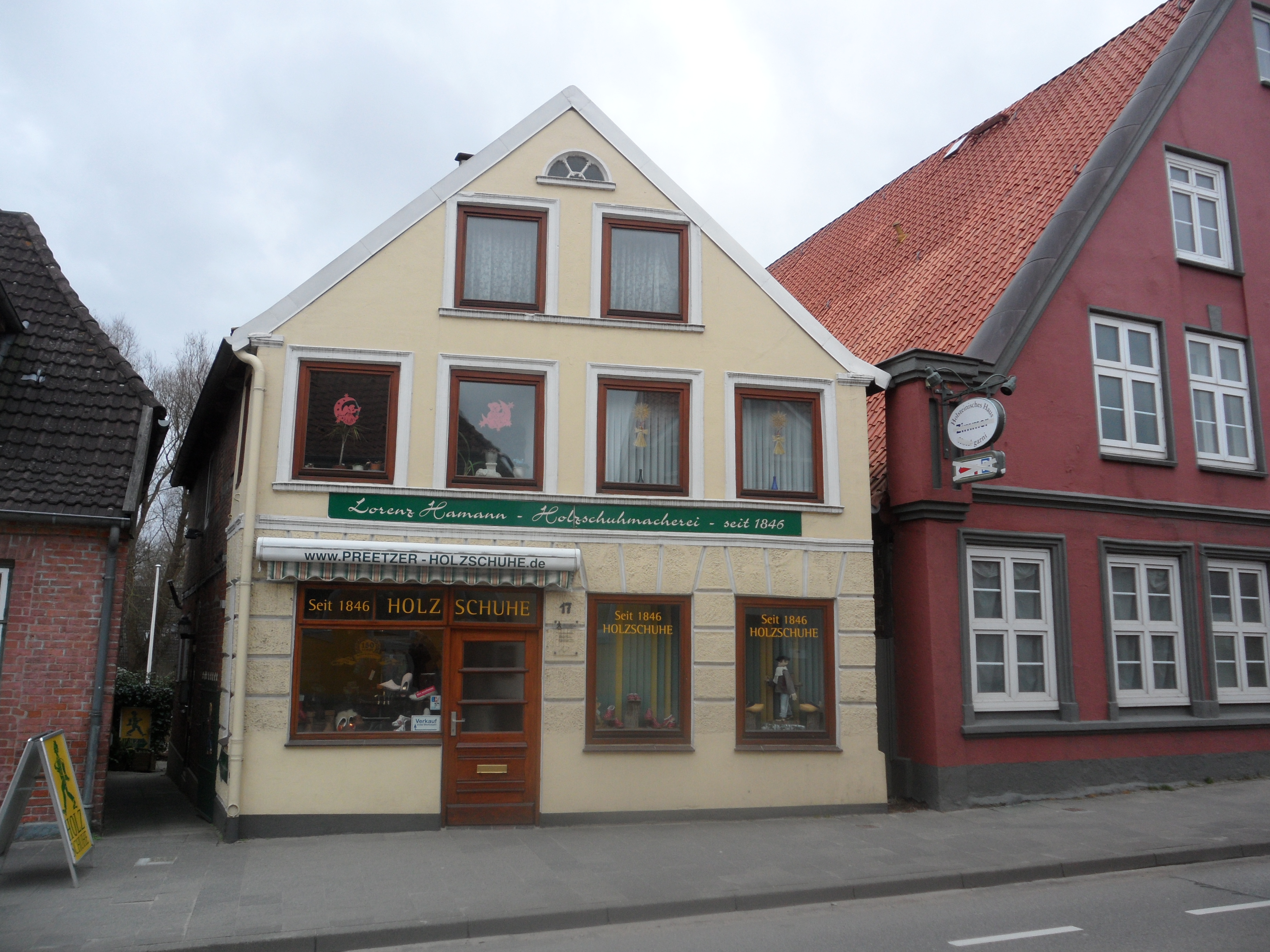 Shop for timber shoes (Clog) and timber shoe museum in Preetz